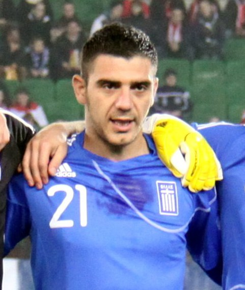 Greece national football team against the Austrian national football team (2:1)